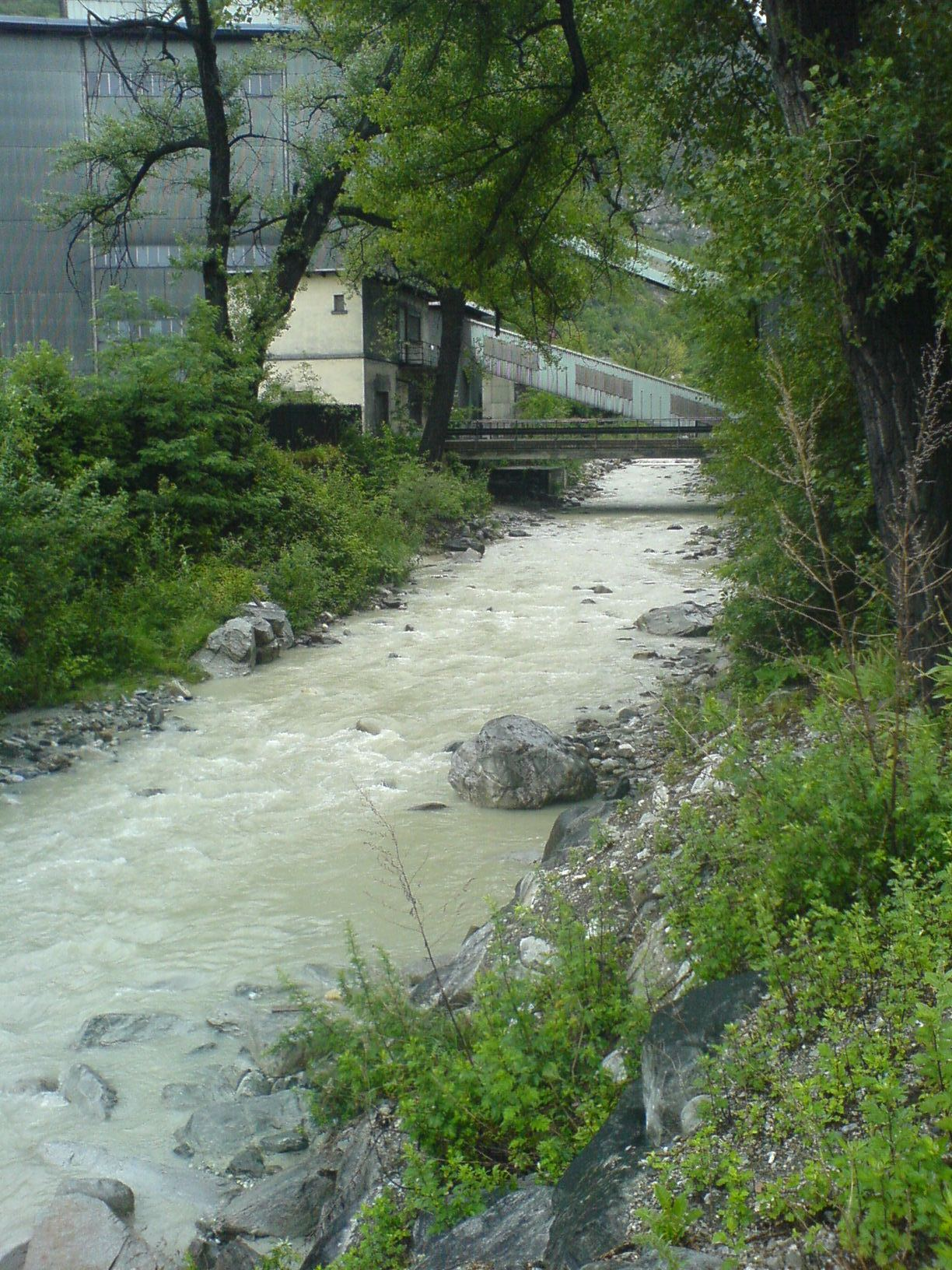 Navizence in Chippis, Valais, Switzerland